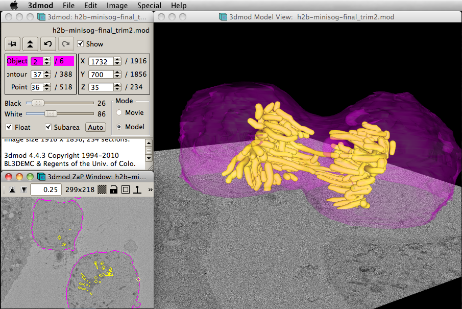 This image represents a human cancerous cell undergoing mitosis. You can see in the image the separating chromosomes (yellow) which I segmented/"traced" these using tubes. I segmented the cell's plasma membrane (purple) by drawing lines on different slices of the image using IMOD. The lines where then interpolated using a special Interpolator plugin.